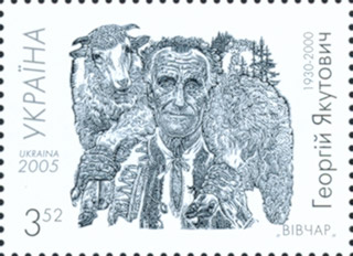 Stamp of Ukraine